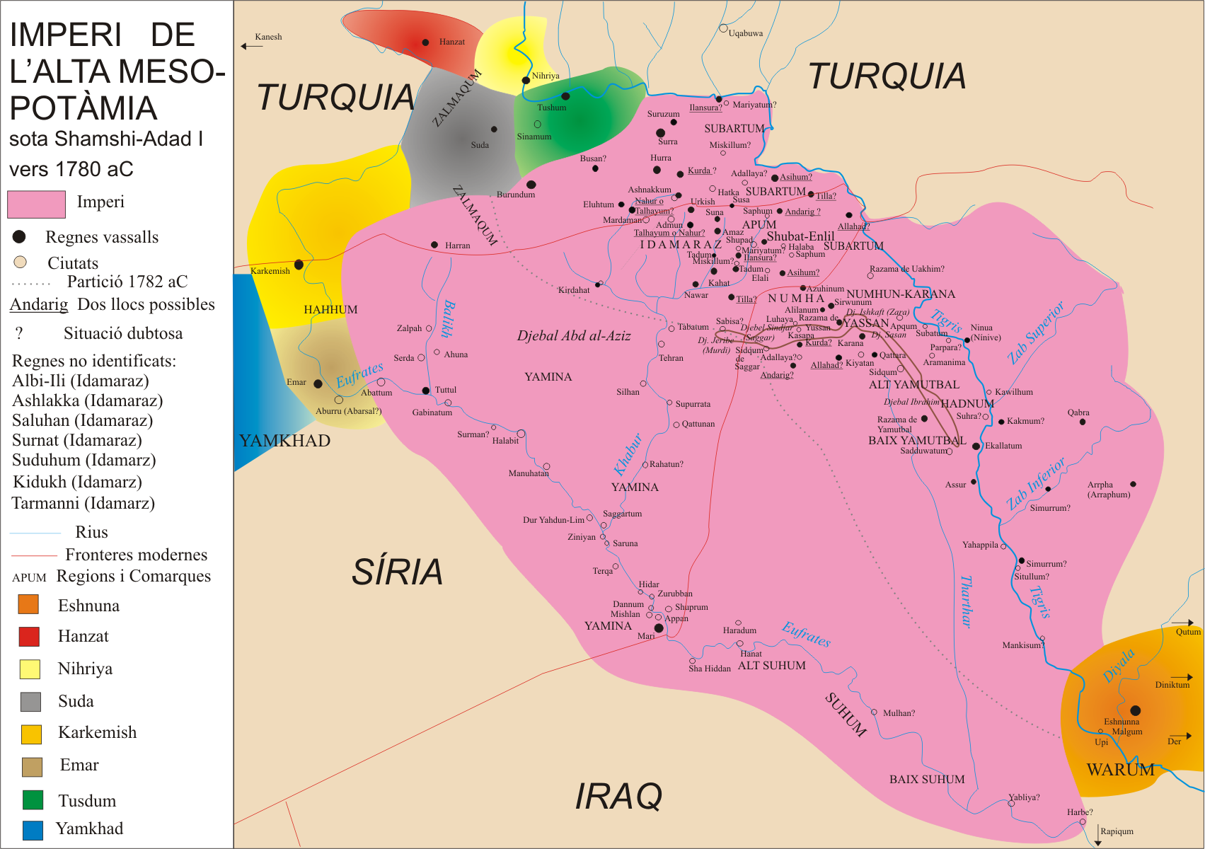 Shamshi-Adad I empire c. 1780 aC